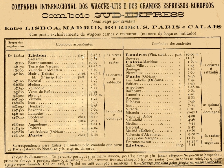 Timetable of the Sud Express trains, that connected Lisbon, in Portugal, to Paris, in France. This image was published in the Gazeta dos Caminhos de Ferro magazine No. 1, of 15th March 1888, and scanned by the Hemeroteca Municipal de Lisboa.